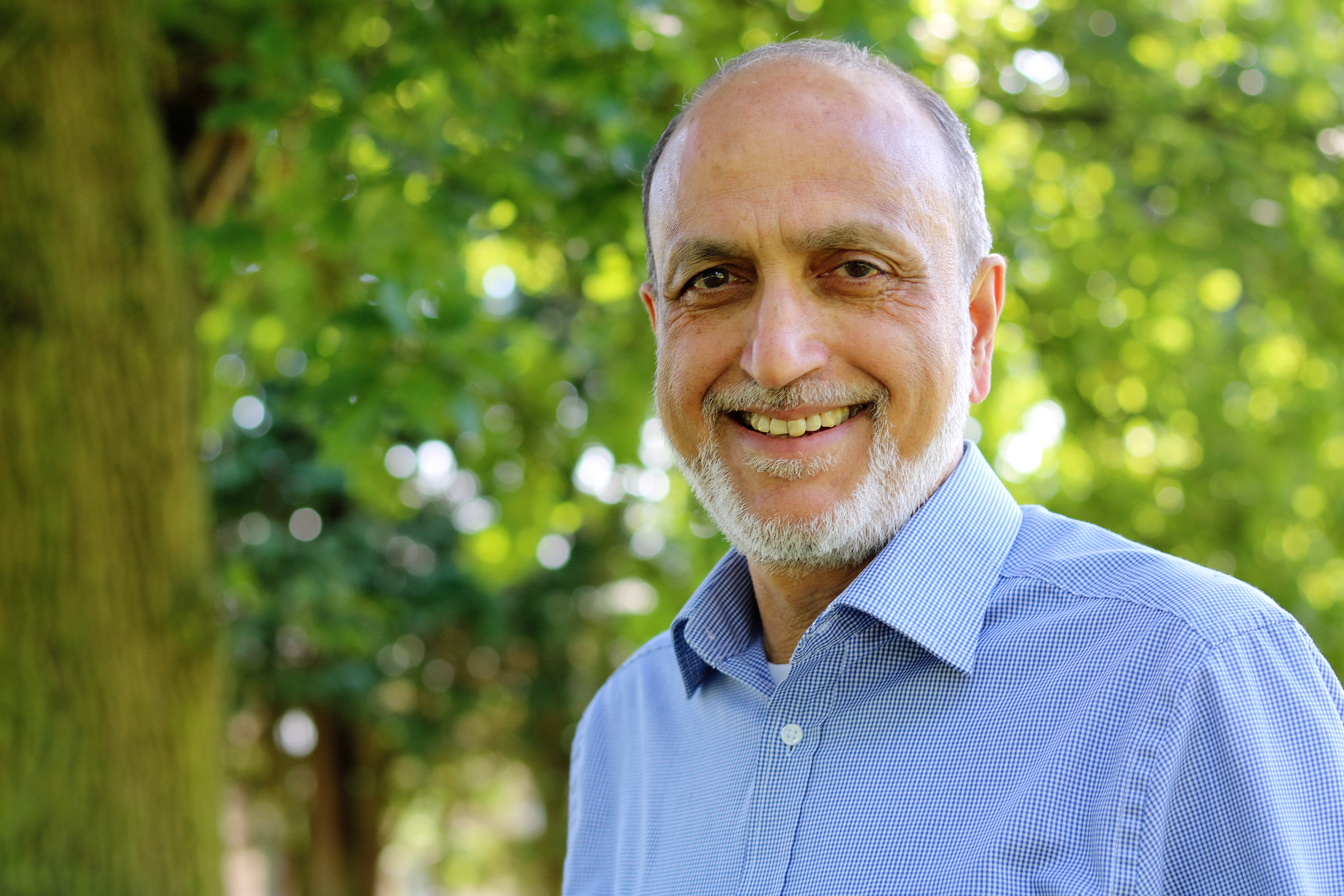 Portrait photo of Dr Ataullah Siddiqui of the Markfield Institute of Higher Education